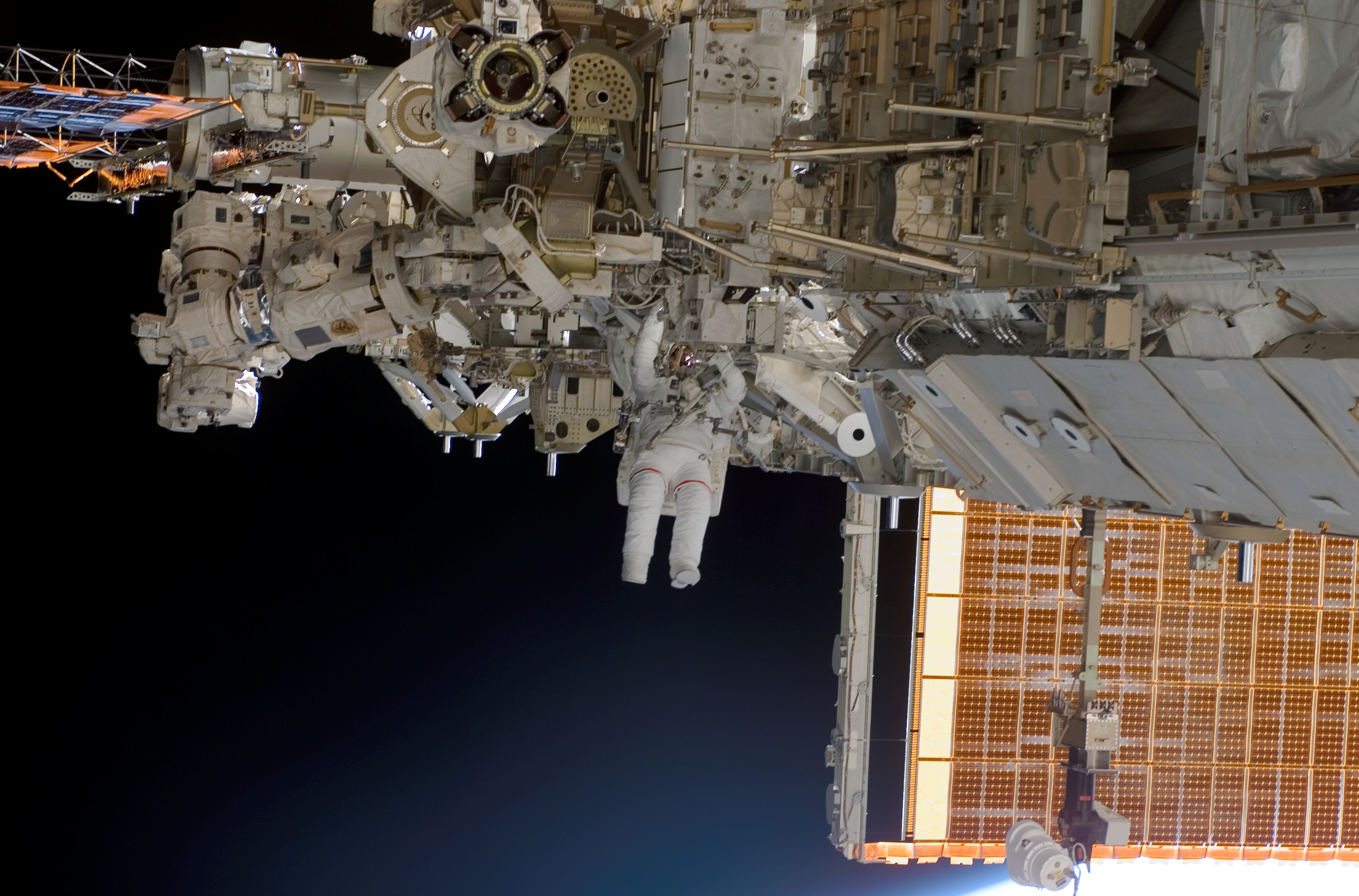 Astronauts Rick Mastracchio and Canadian Space Agency's Dave Williams (out of frame), both STS-118 mission specialists, participate in the mission's first planned session of extravehicular activity (EVA), as construction continues on the International Space Station. During the 6-hour, 17-minute spacewalk Mastracchio and Williams attached the Starboard 5 (S5) segment of the station's truss, retracted the forward heat-rejecting radiator from the station's Port 6 (P6) truss, and performed several get-ahead tasks.1